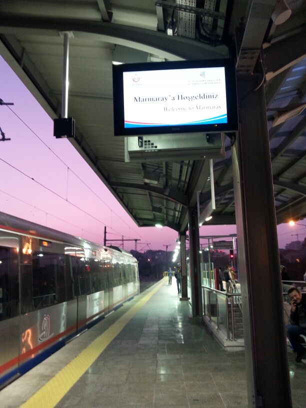 Marmaray Platform Commuter Train Istanbul